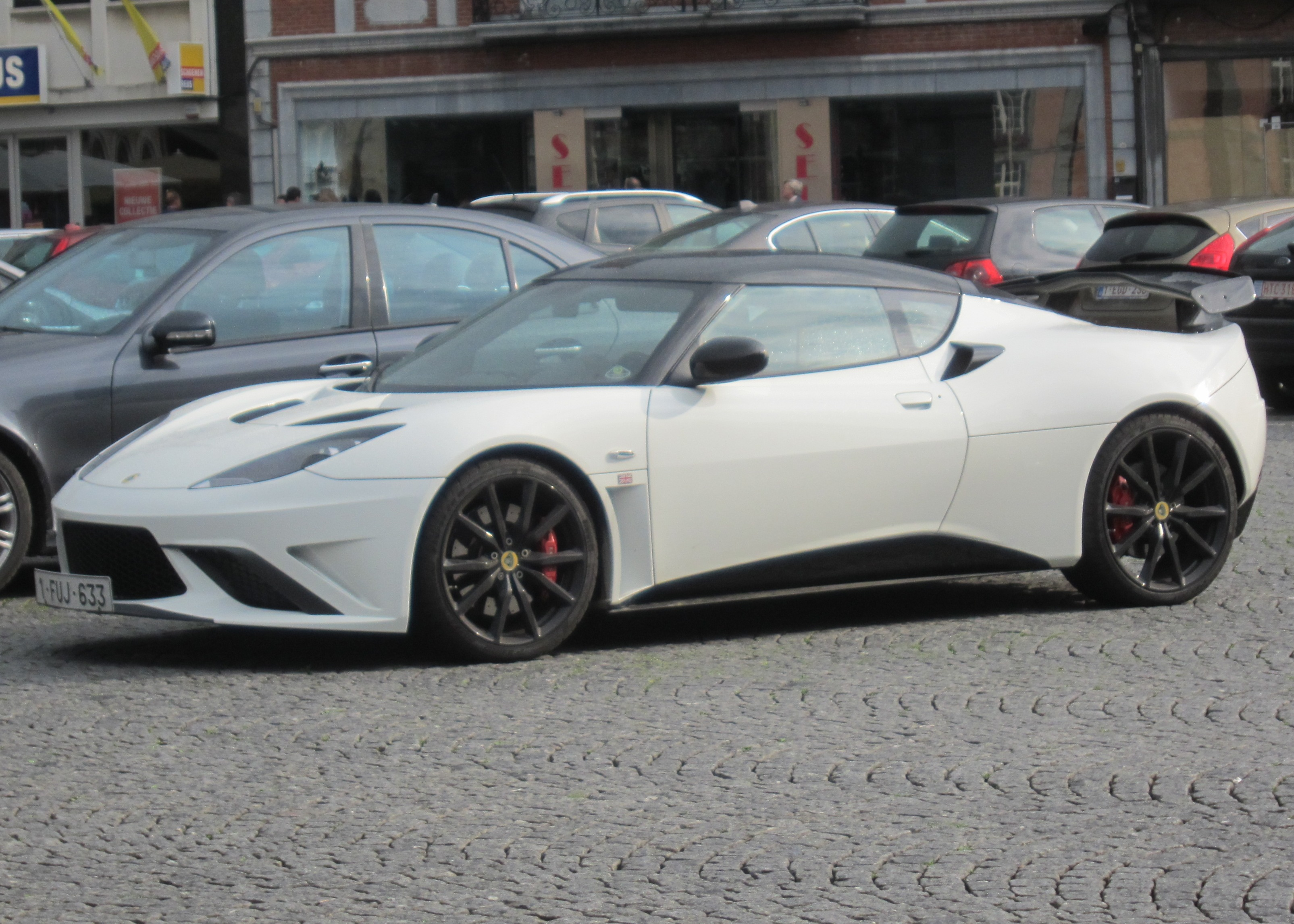 Lotus Evora S (St Trond)